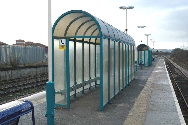 Seamer Station. Rather oddly-named now it would appear, as Seamer is well over a mile away; but when it was built that village was the nearest settlement. Here the rail lines from Scarborough to Hull and York divide.